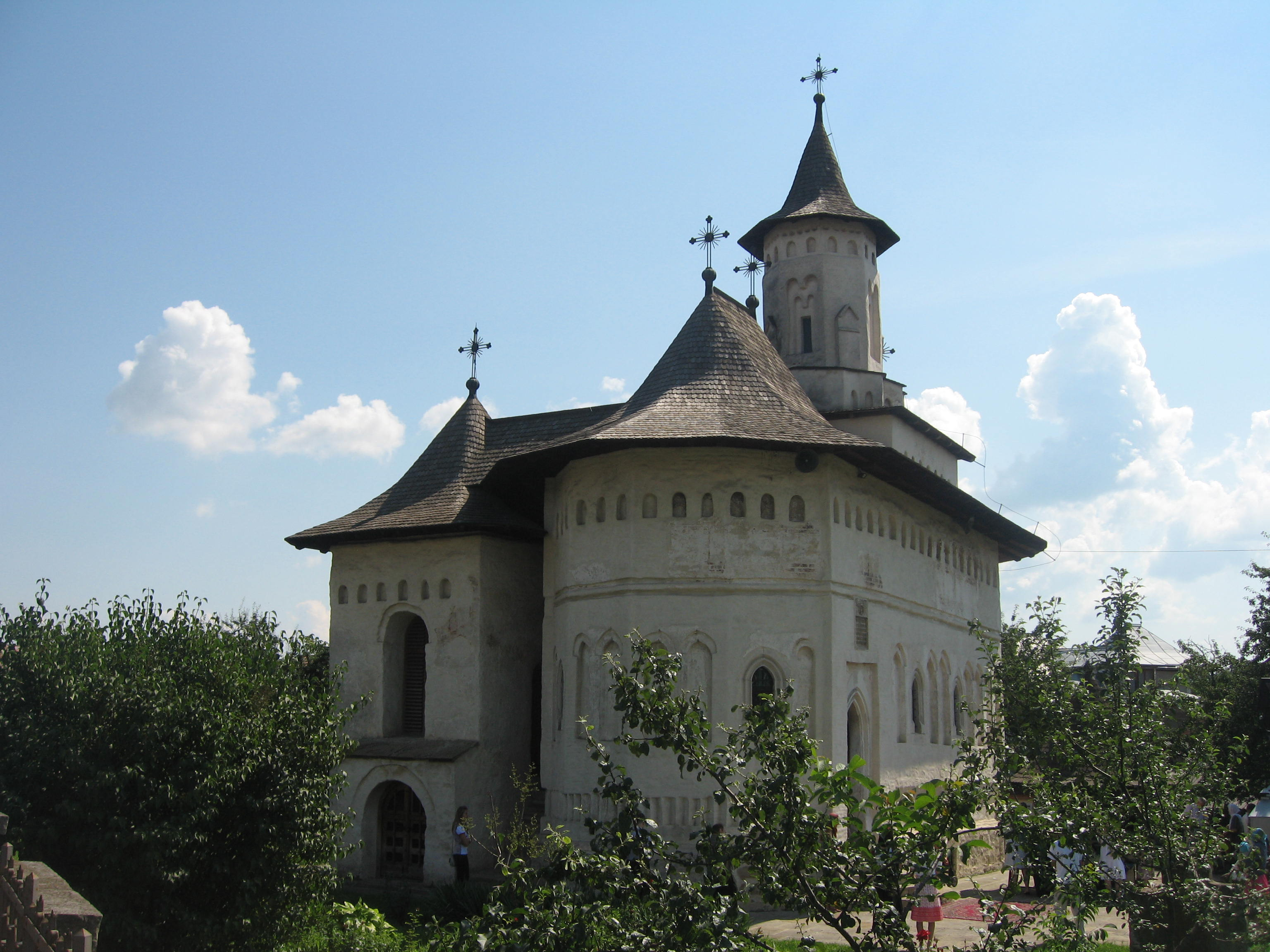 Coconilor Church in Suceava.